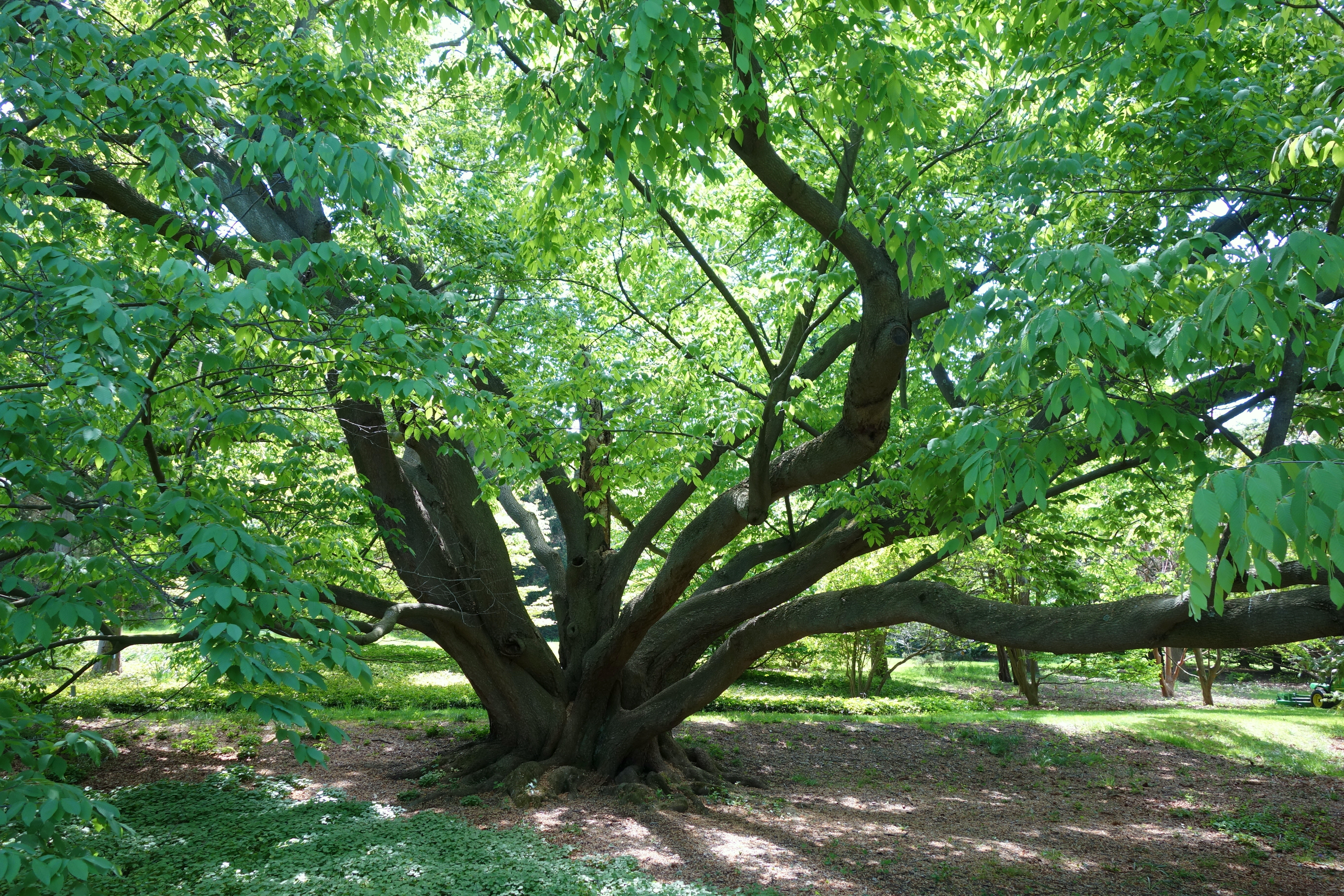 Botanical specimen in the Morris Arboretum, 100 East Northwestern Avenue, Chestnut Hill, Philadelphia, Pennsylvania, USA.